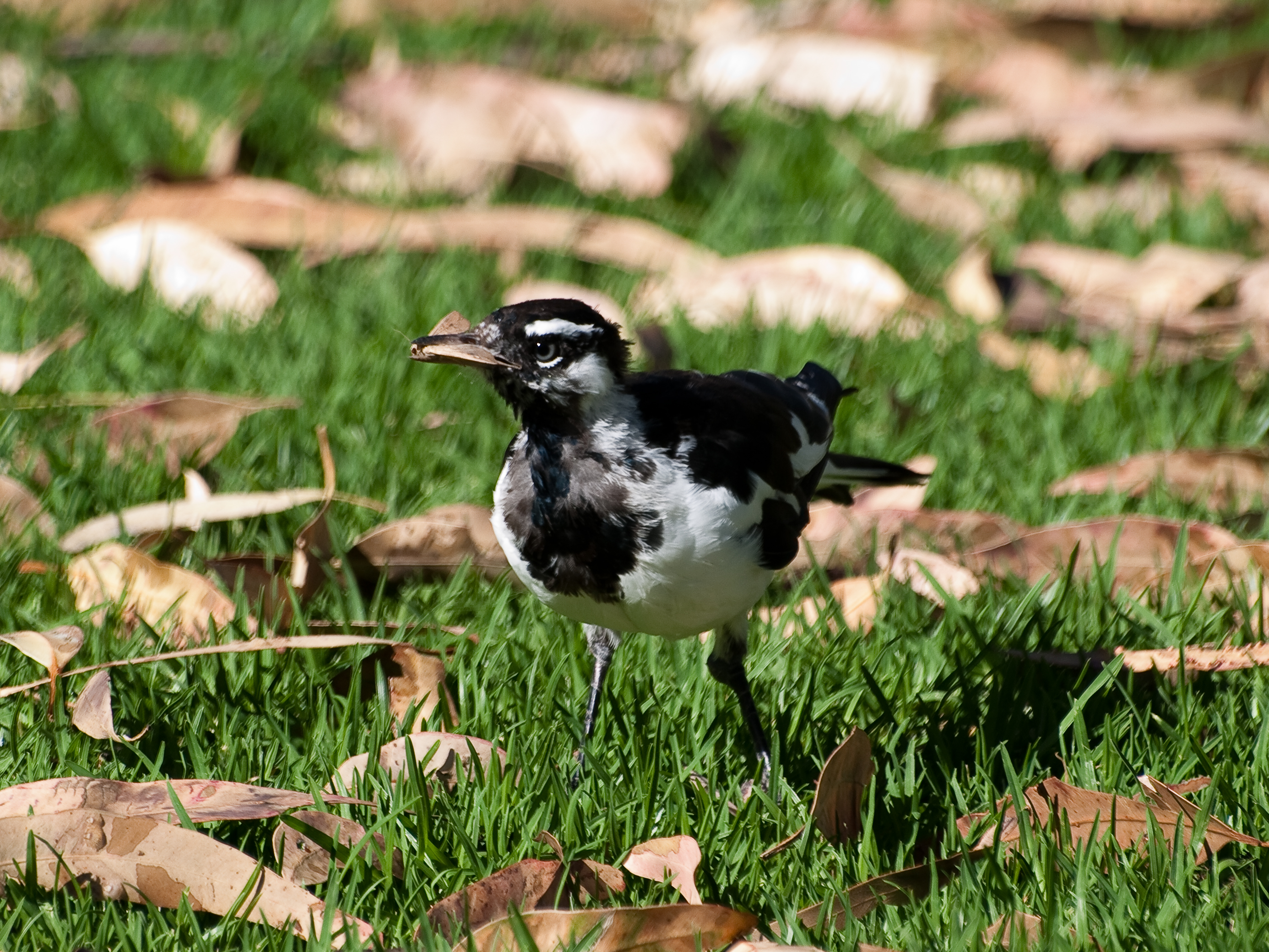 A female Magpie Lark feeding on a small moth.